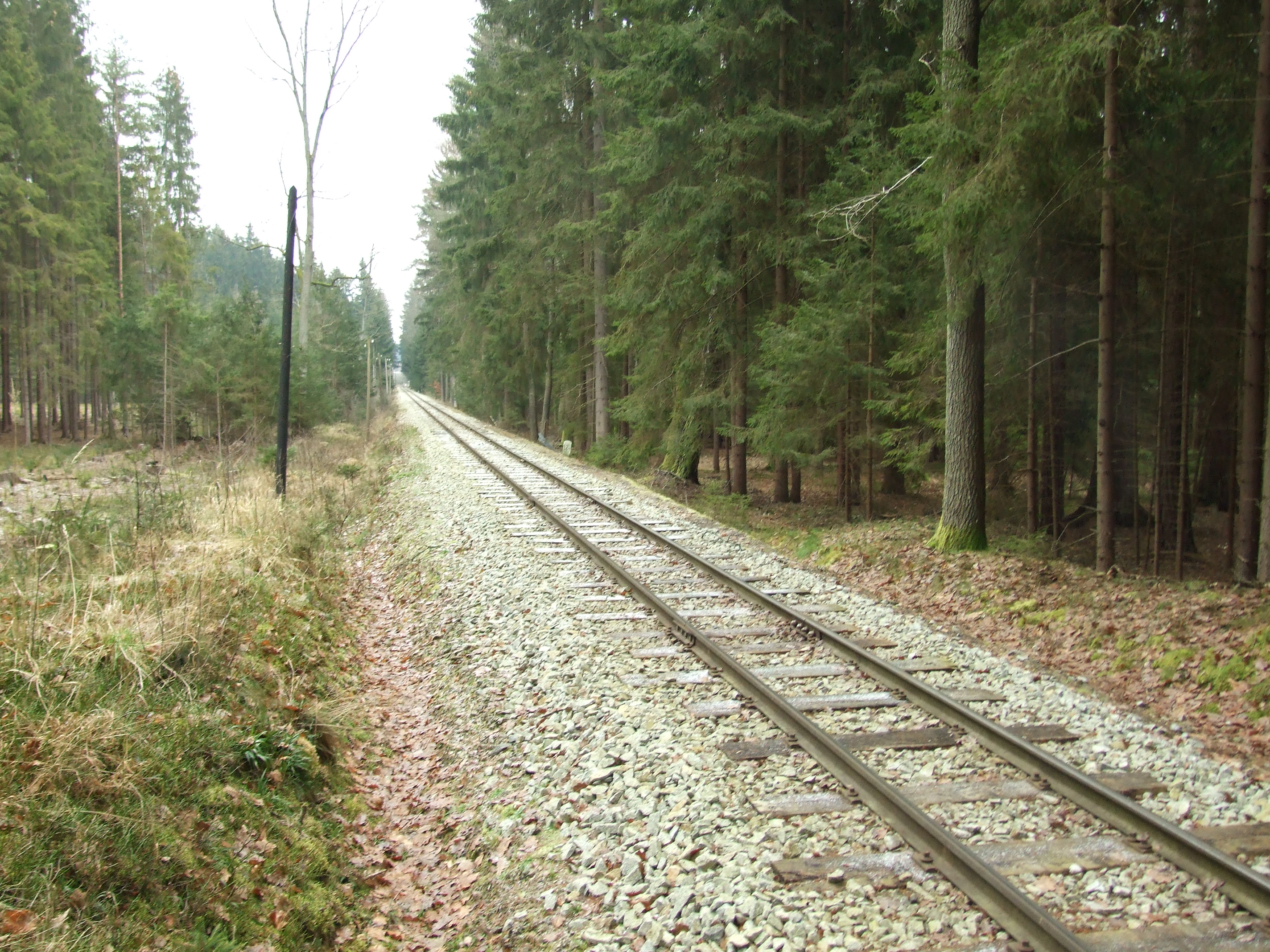 The JHMD narrow gauge track from Jindřichův Hradec to Nová Bystřice near Malý Ratmírov and Blažejov, South Bohemian Region, CZ